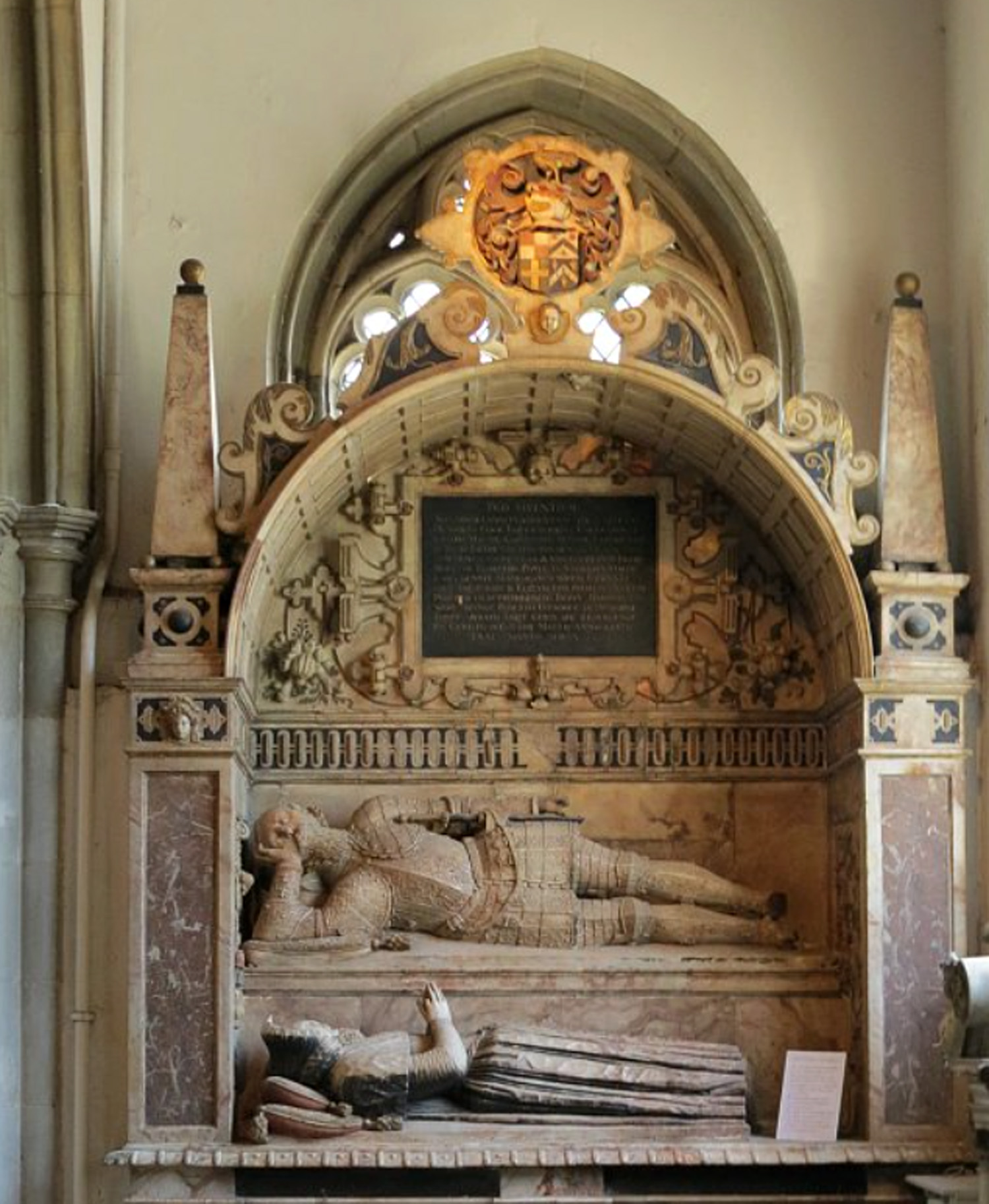 Monument to Sir Henry Cocke and his wife in Boxbourne Church